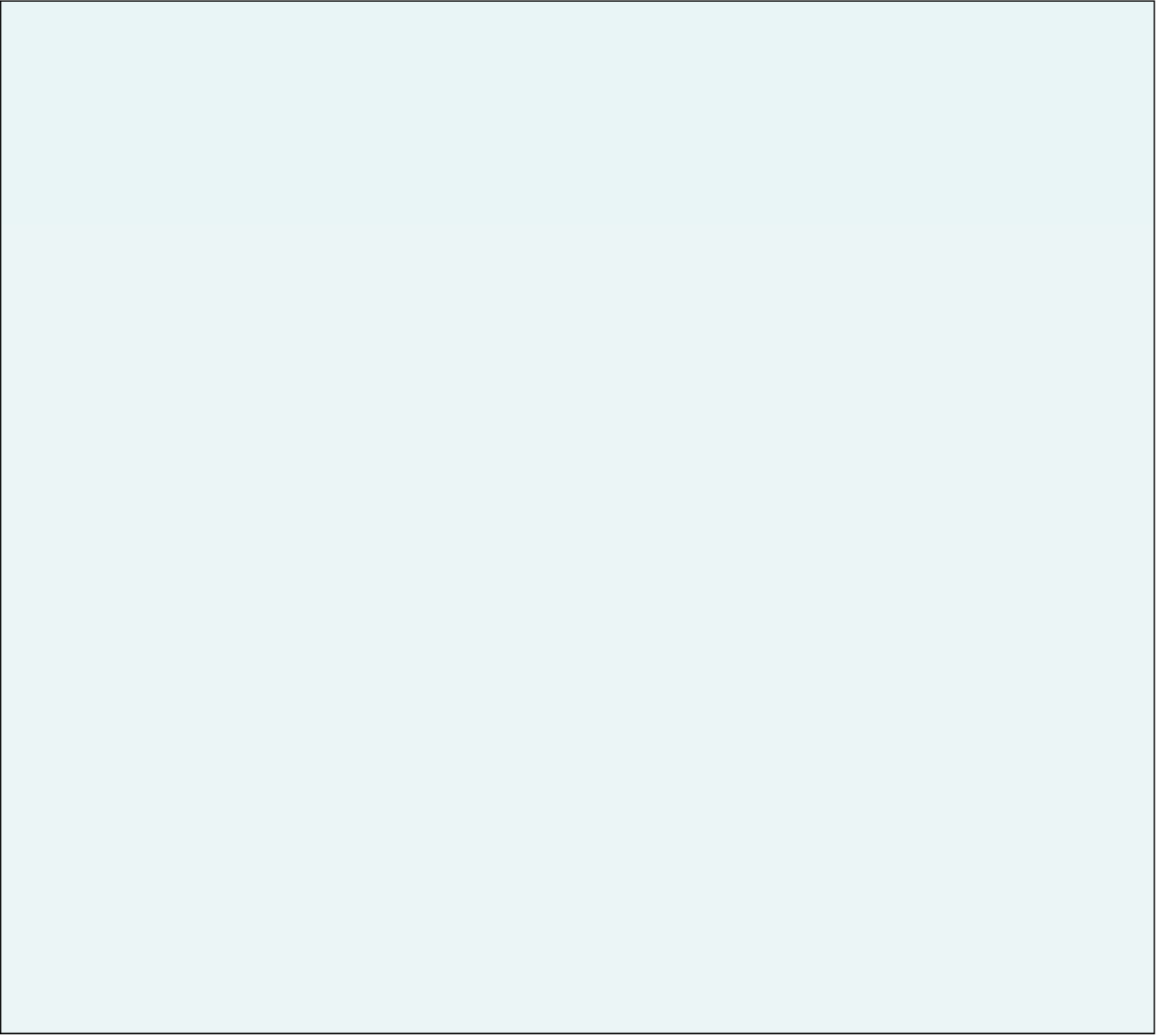 skali intensywności - preesentation 4